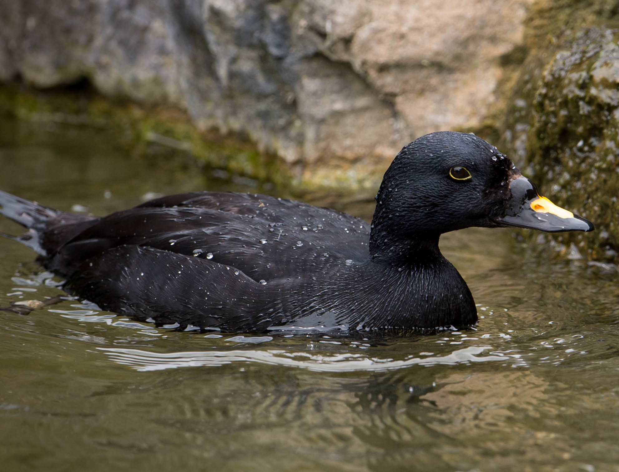 Common Scoter (Melanitta nigra). Wildfowl & Wetlands Trust (WWT) - Arundel, West Sussex